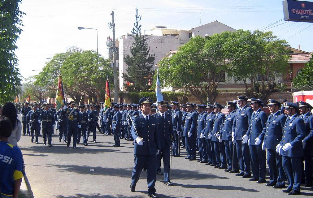 Bolivian pilots starting military parade.